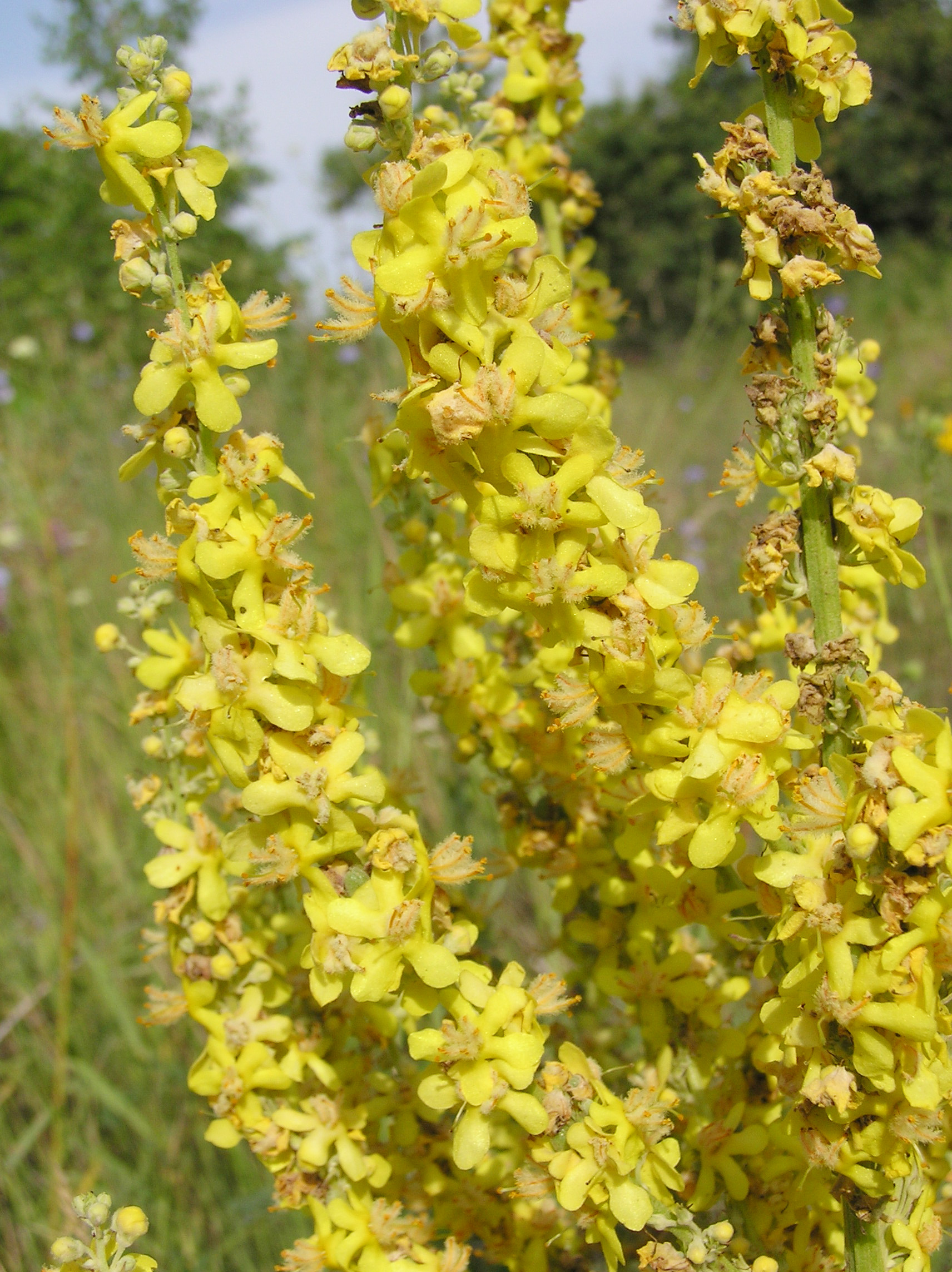 Verbascum lychnitis L., flowers. Habitat: edges of upland deciduous forest. Vicinity of Saratov city, Russia.